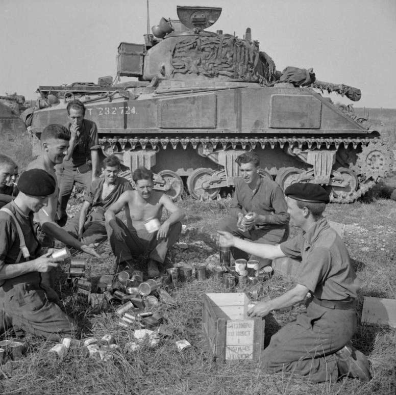 The crew of a Sherman tank of 1st Northamptonshire Yeomanry receive rations before the start of Operation 'Totalise'